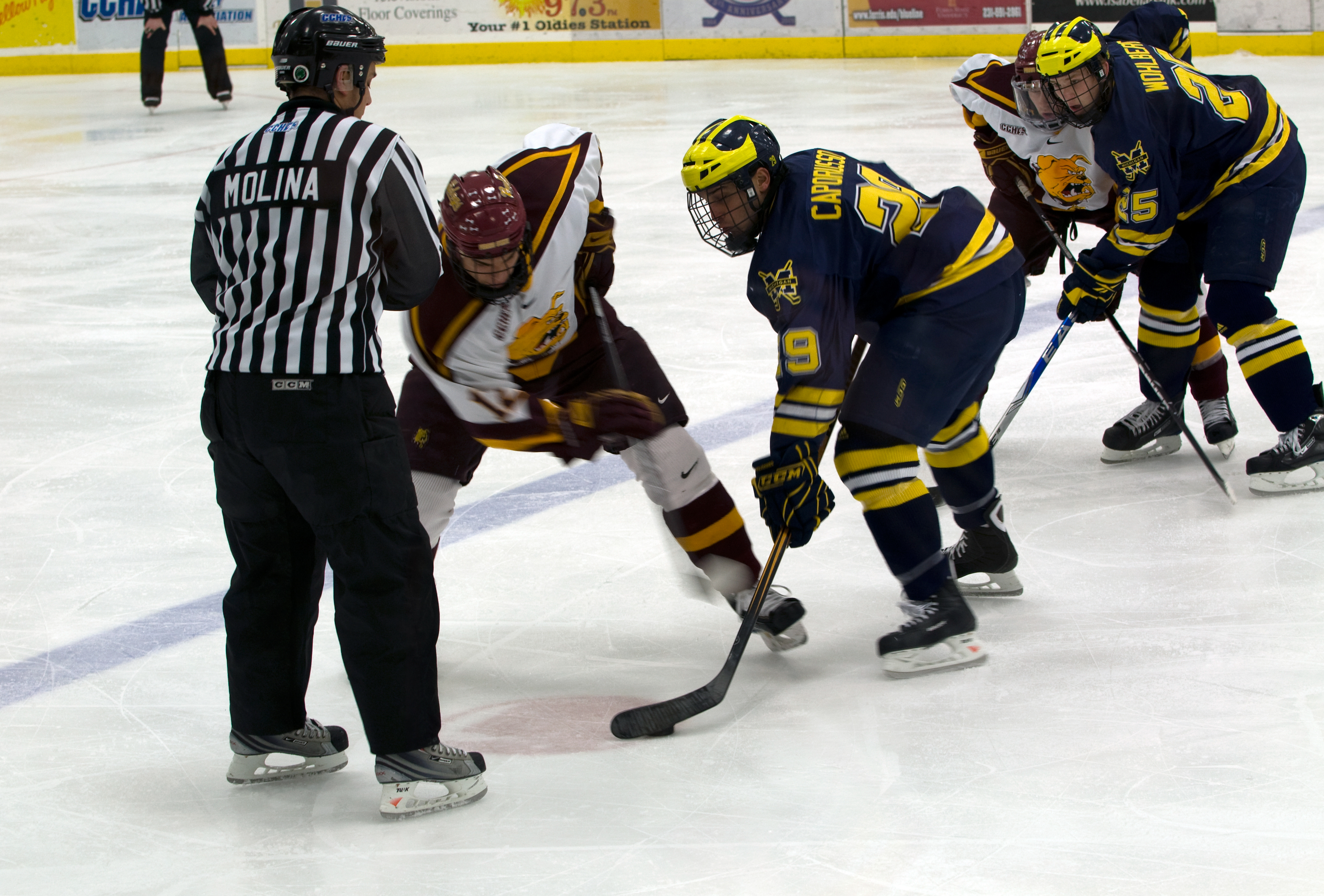 Louie Caporusso wins faceoff against Ferris State